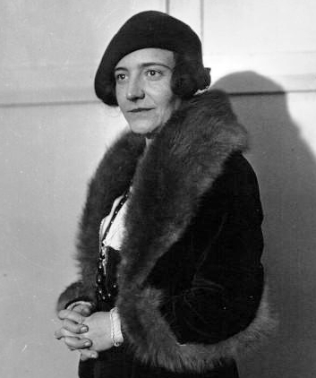 French novelist and translator Simonne Ratel (1900-1945).